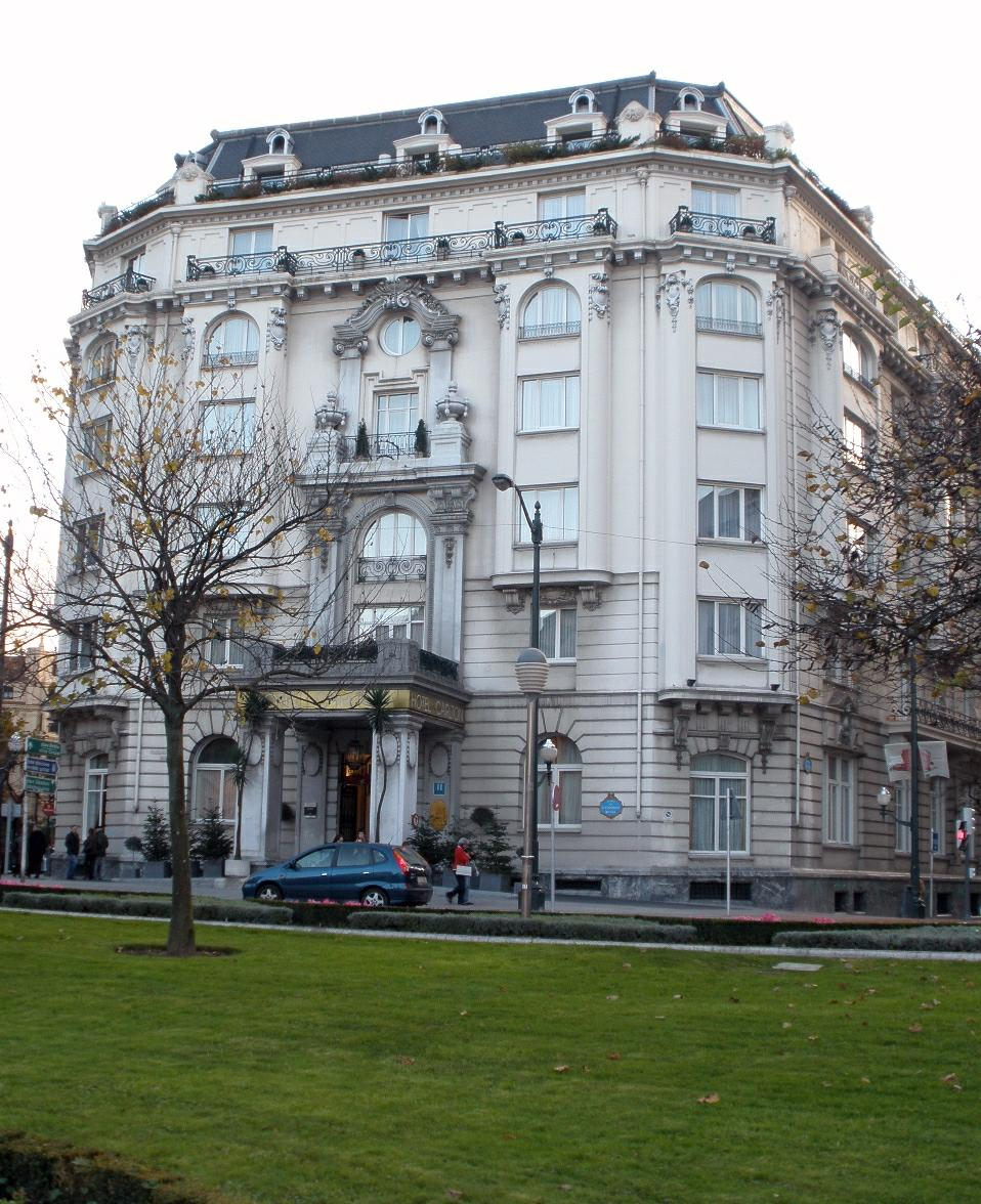 Hotel Carlton de Bilbao (País Vasco, España)